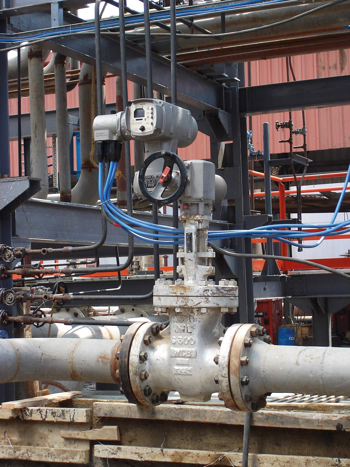 Electric actuator on a valve in a refinery